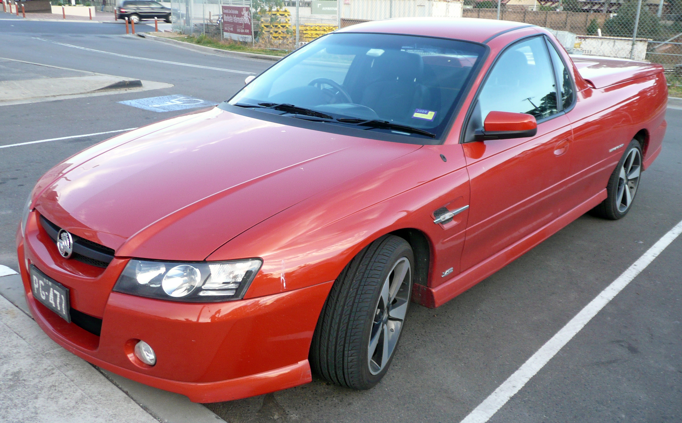 2006–2007 Holden Ute (VZ) Thunder SS utility. Photographed in Kirrawee, New South Wales, Australia.